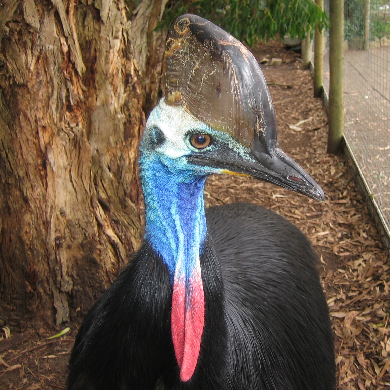 Southern Cassowary (also known as Double-wattled Cassowary, Australian Cassowary and Two-wattled Cassowary) in captivity in Australia.